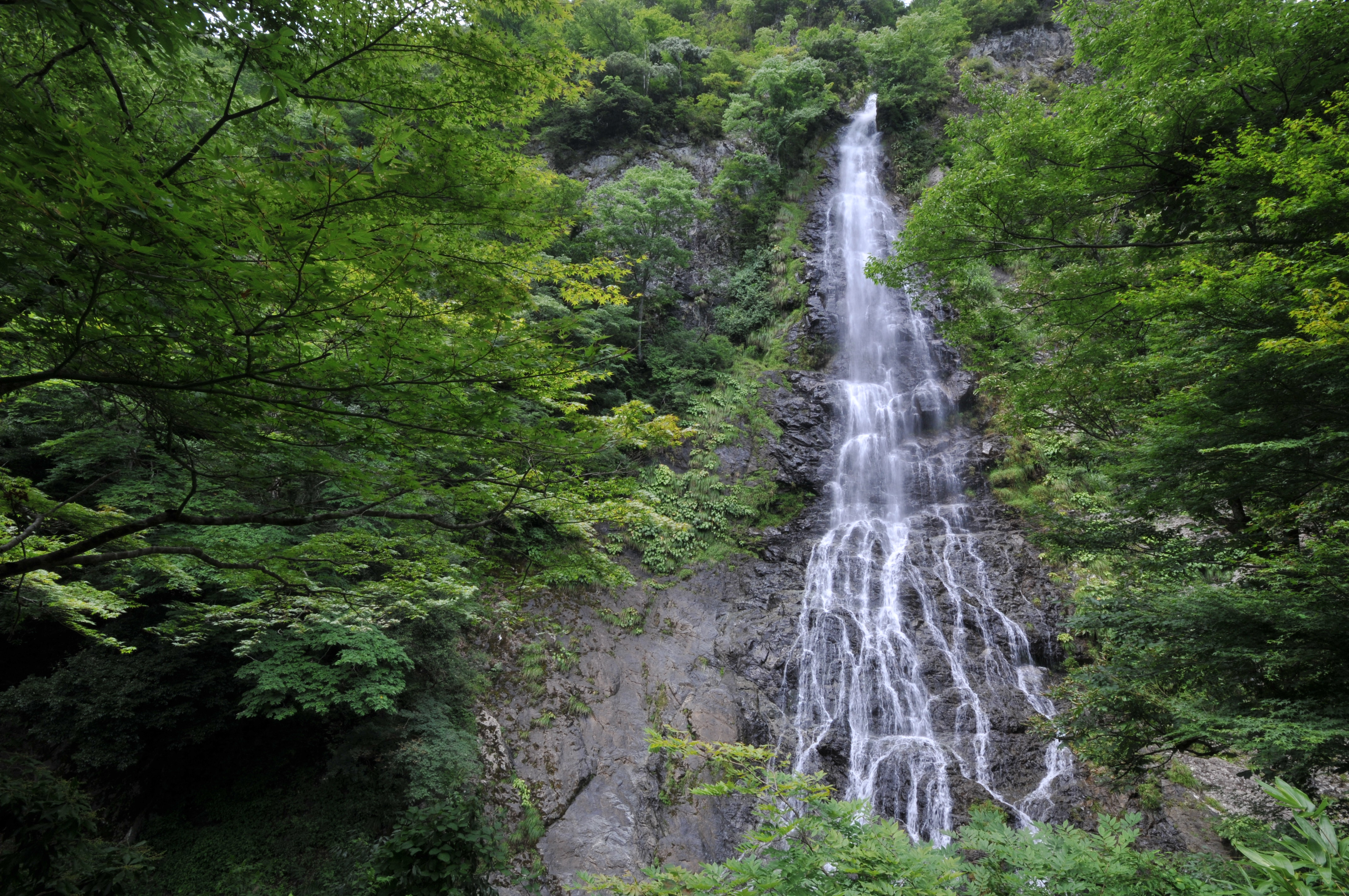 Tendaki waterfall